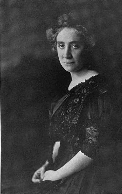 Photograph of American author Louise Forsslund (Mary Louise Foster), which appeared in the April 1909 issue of The Bookman, p. 119